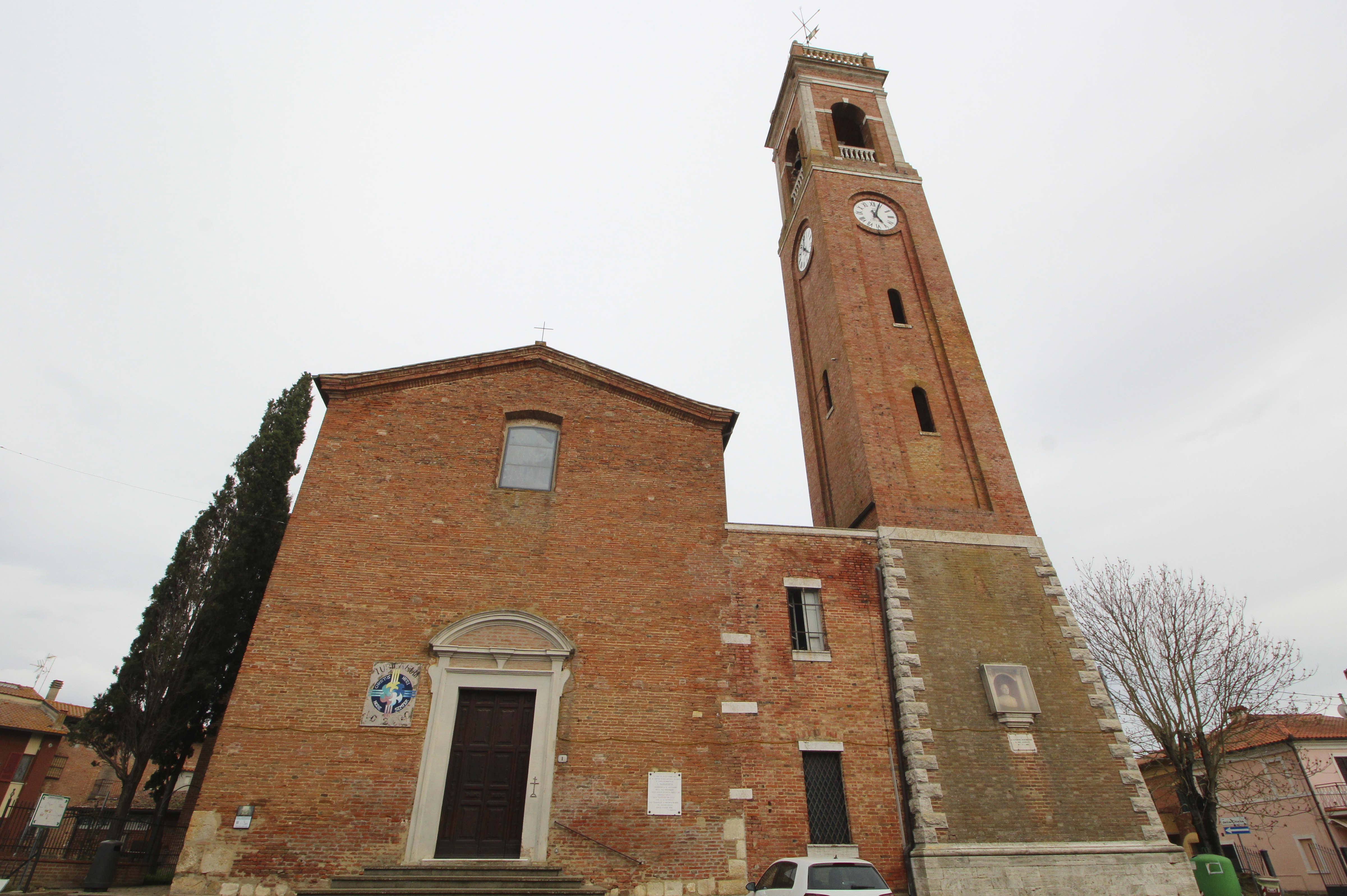 Church Santi Pietro e Paolo, Pozzuolo, hamlet of Castiglione del Lago, Province of Perugia, Umbria, Italy